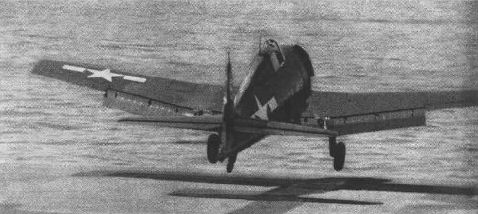 A Grumman F6F-5K Hellcat drone is launched from the U.S. Navy aircraft carrier USS Shangri-La (CV-38) in preparation for "Operation Crossroads", in 1946.